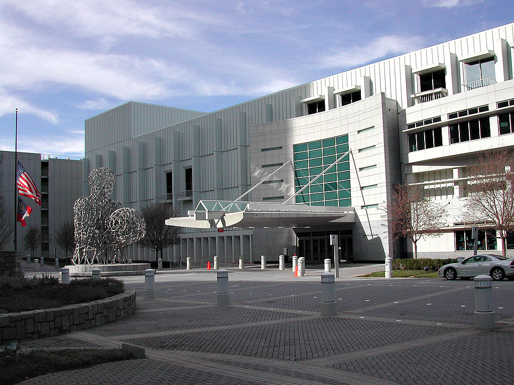 South entrance of the Woodruff Arts Center in Atlanta, Georgia Steven Sherrill, author